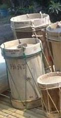 Mexican folk drum